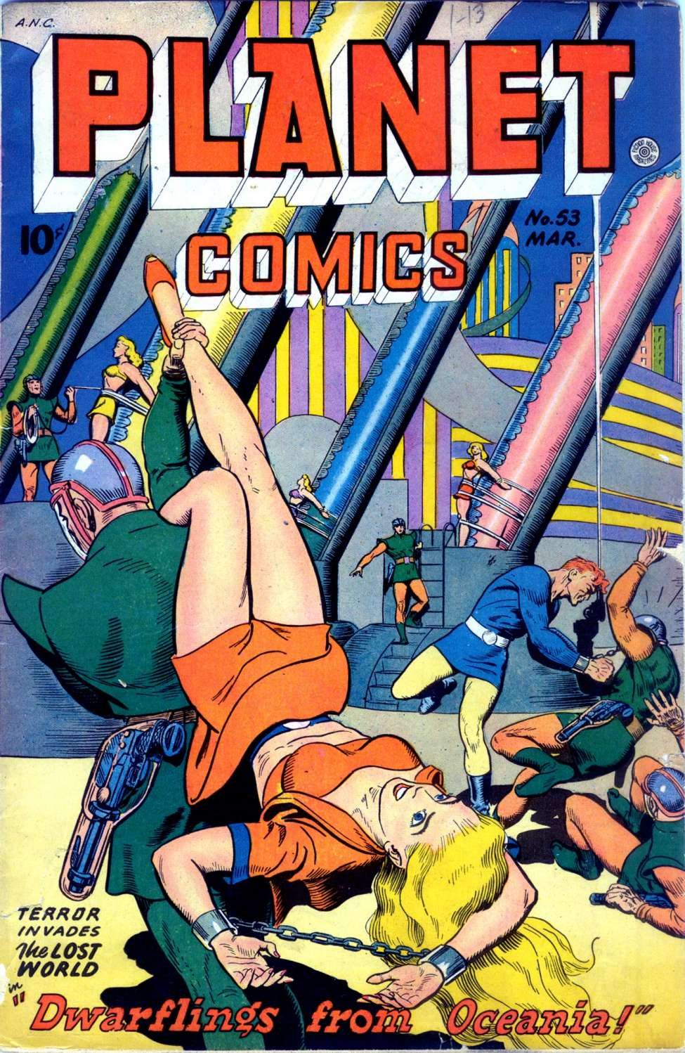 Cover scan of Planet Comics, No. 53, Fiction House, March 1948. Cover art by Joe Doolin